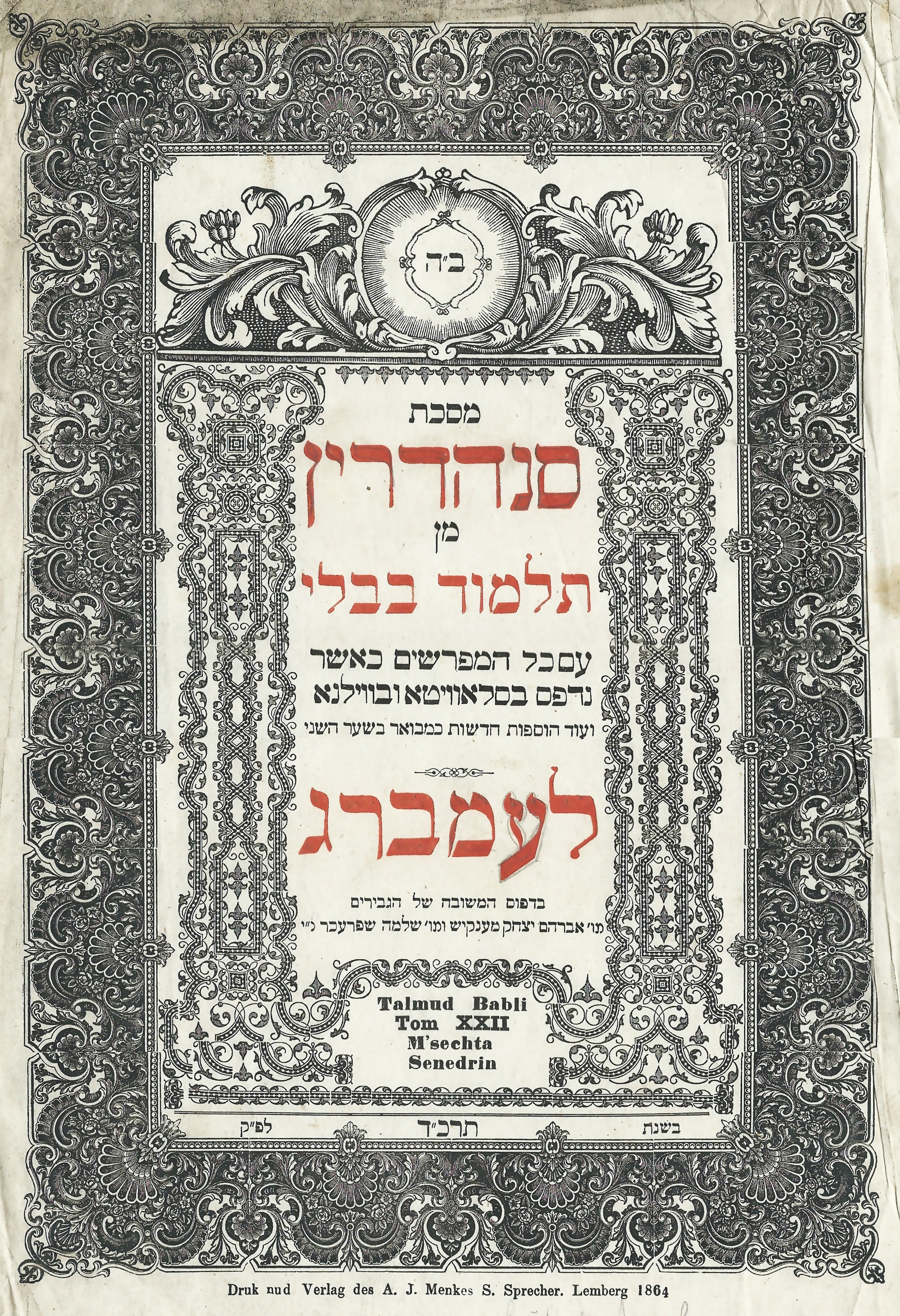 Babylonian Talmud, vol XXII, Masechet Sanhedrin, Edit. & Print A.J. Menkes & S. Sprechner, Lwow (Lemberg) 1864